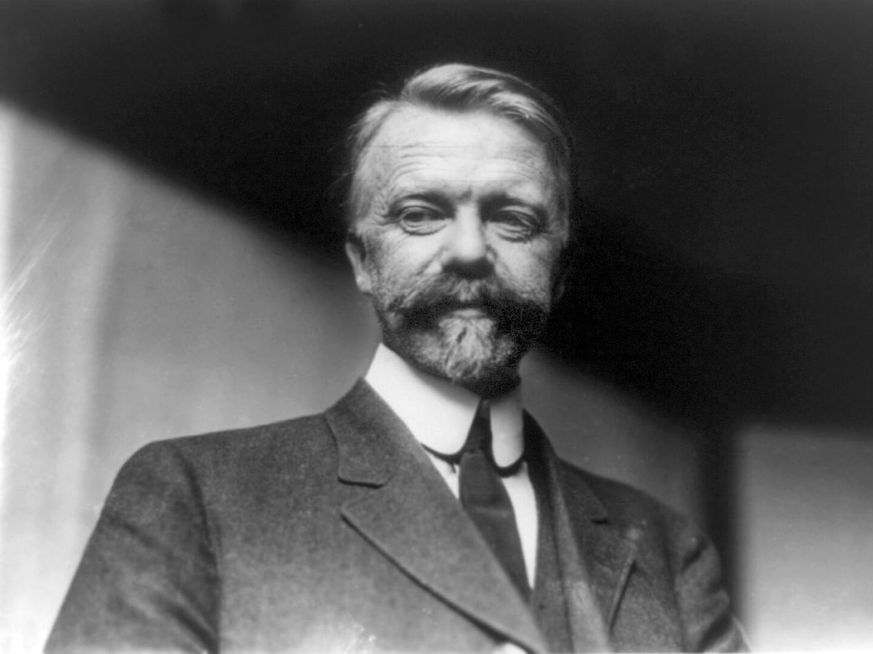 Dr. Luther Halsey Gulick, Y.M.C.A. Director, head-and-shoulders portrait, facing front